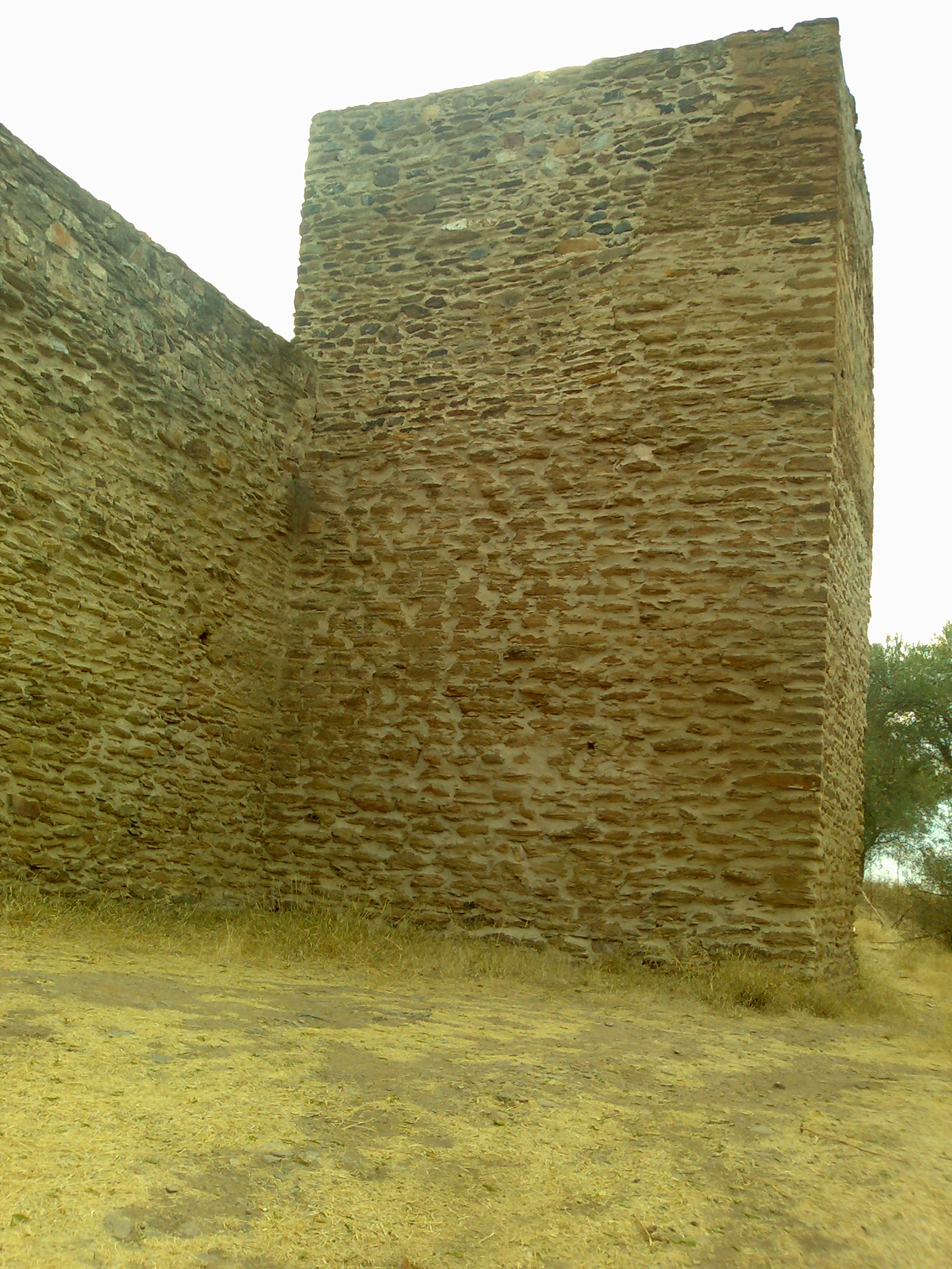 Noudar castle, in Alentejo, Portugal